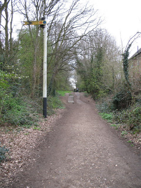 Nicky Line Halt Now a cyclepath, the Midland Railway distant signal and remains of a platform bear witness to the branchline that once served Harpenden, Redbourn and Hemel Hempstead.